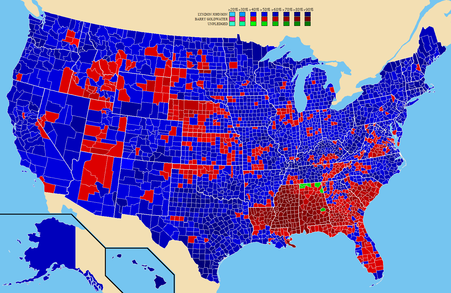 Election results by county. Blue: Lyndon B. Johnson; Red: Barry M. Goldwater; Green: Unpledged electors.